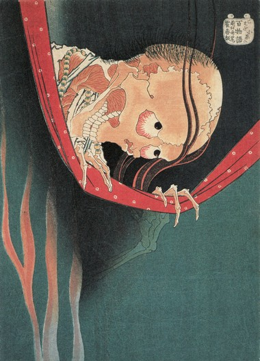 Hyaku-monogatari Kohada Koheiji